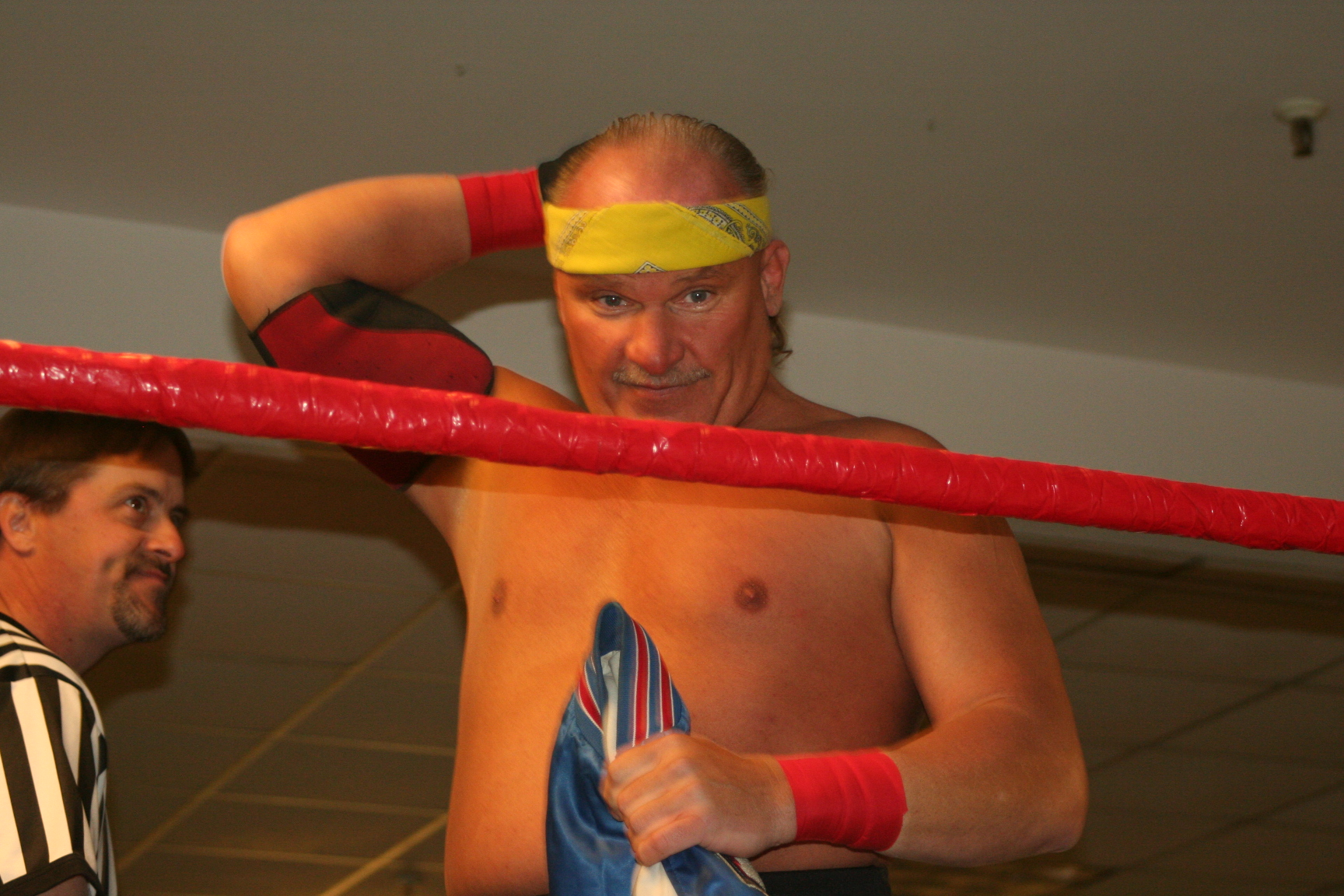 George South at an AIWF Eden show in North Carolina on January 28, 2011.